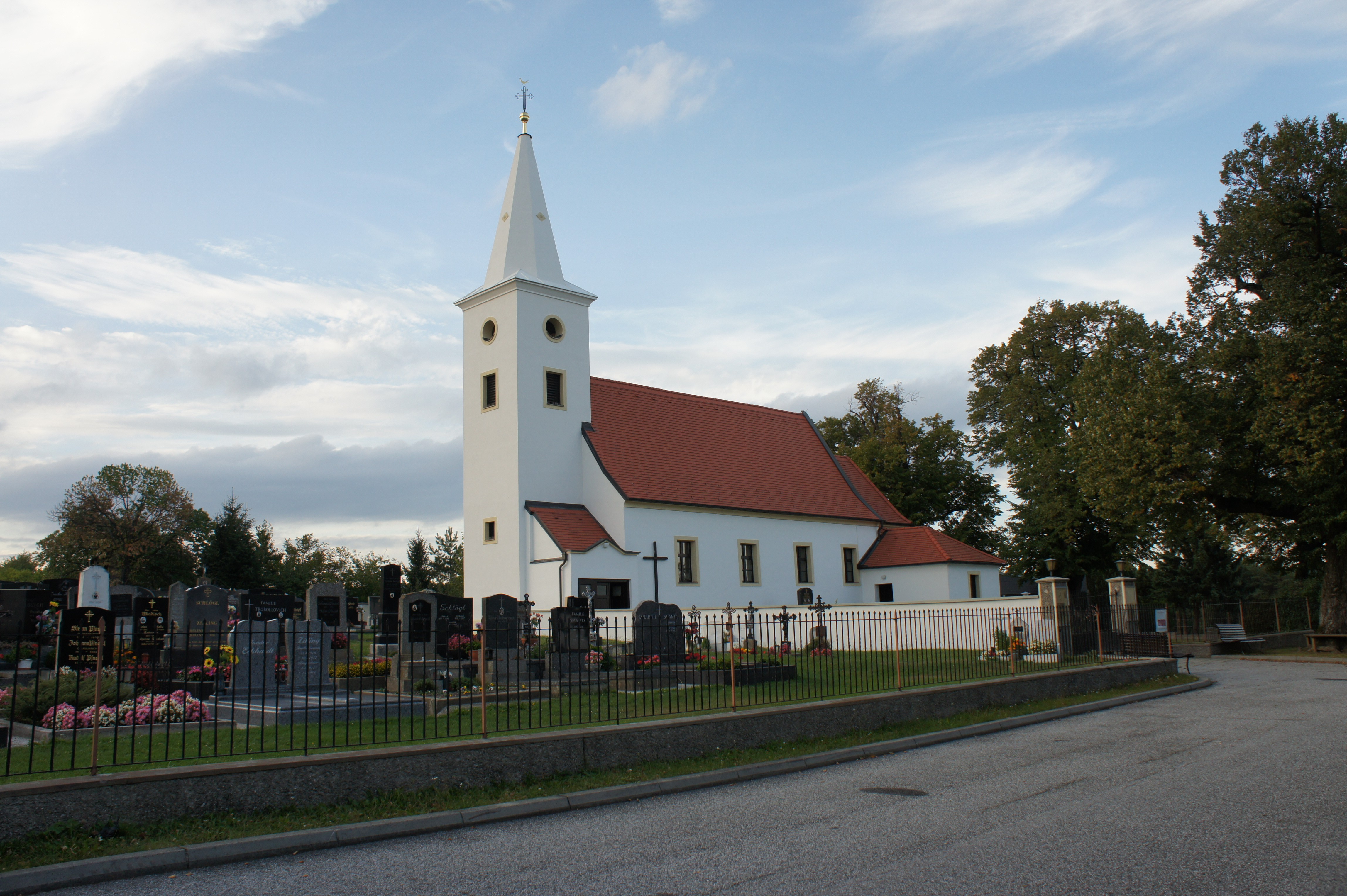 Catholic church St. Magdalena and cemetery, Weingraben, Austria